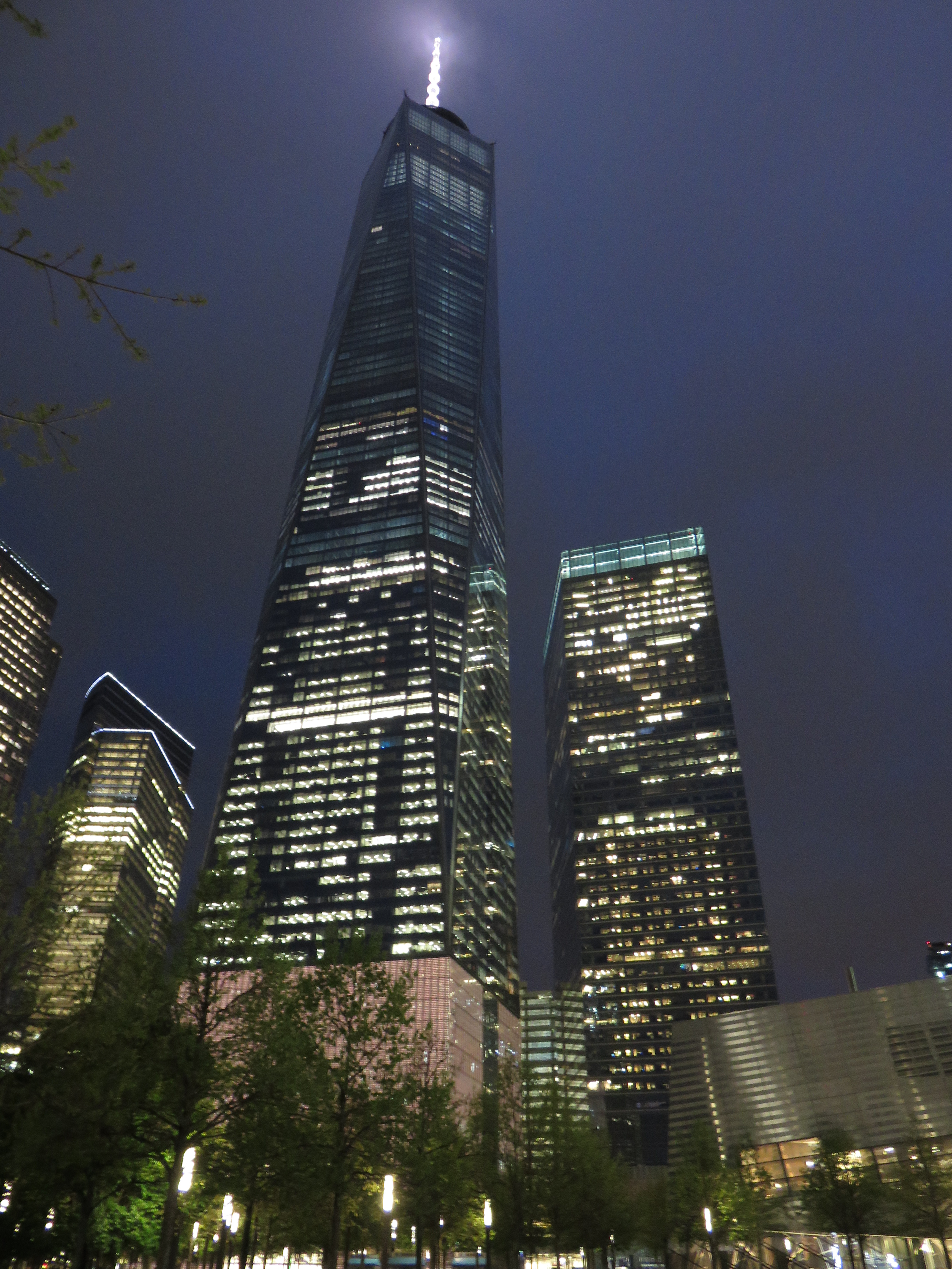 1 World Trade Center and 7 World Trade Center at night, viewed from the 9/11 memorial plaza